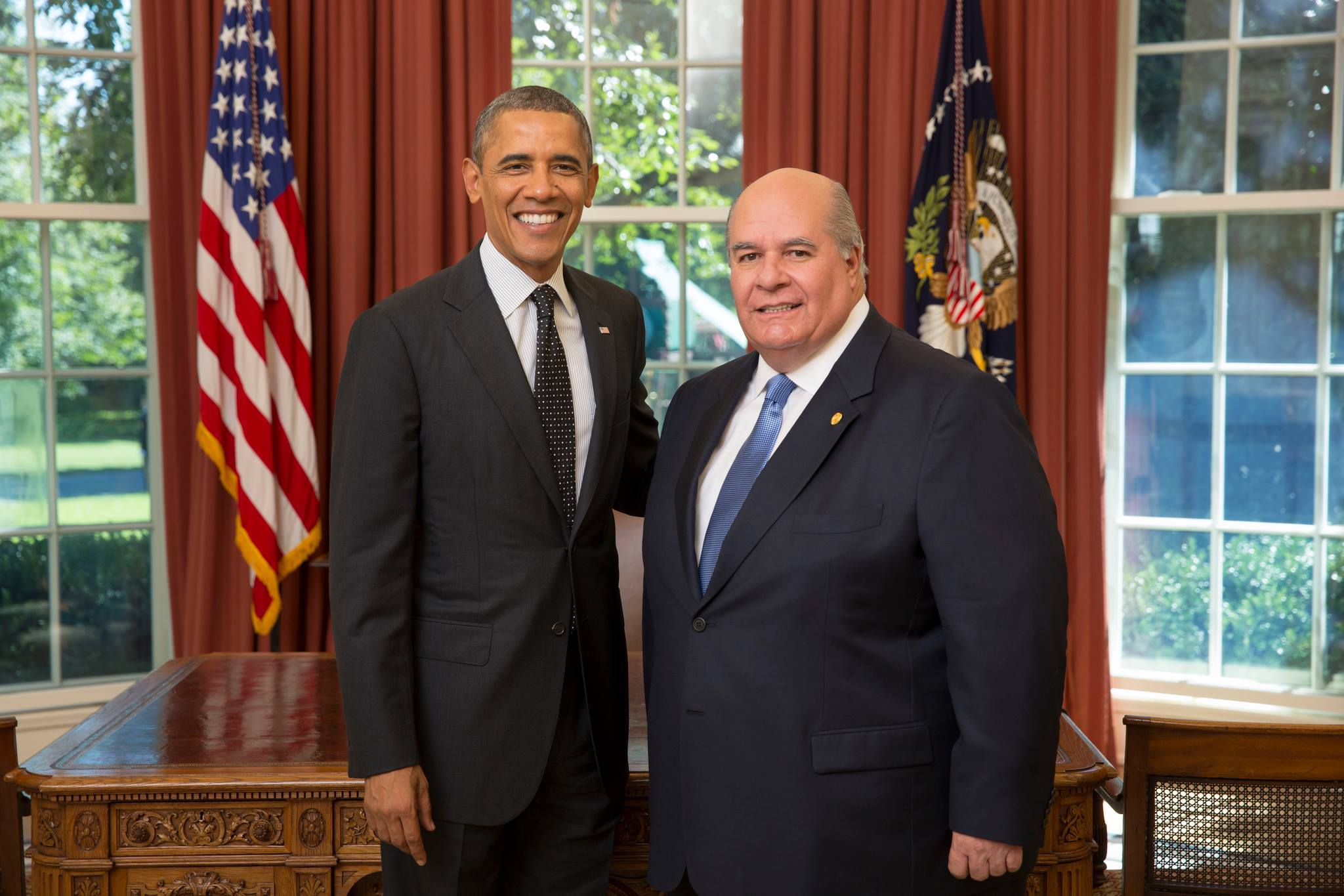 Julio Ligorria y Obama